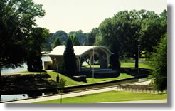 photo of Freedom Park Pavilion, Charlotte, NC